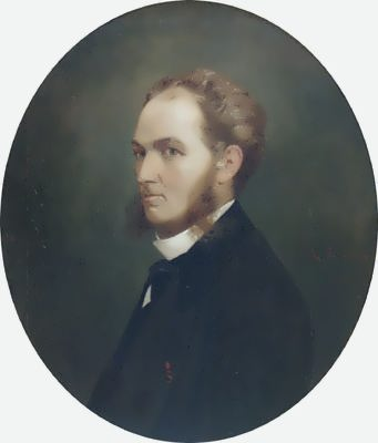 Theodor Aman - Portrait of Carol Davilla, oil on canvas, 64x62 cm